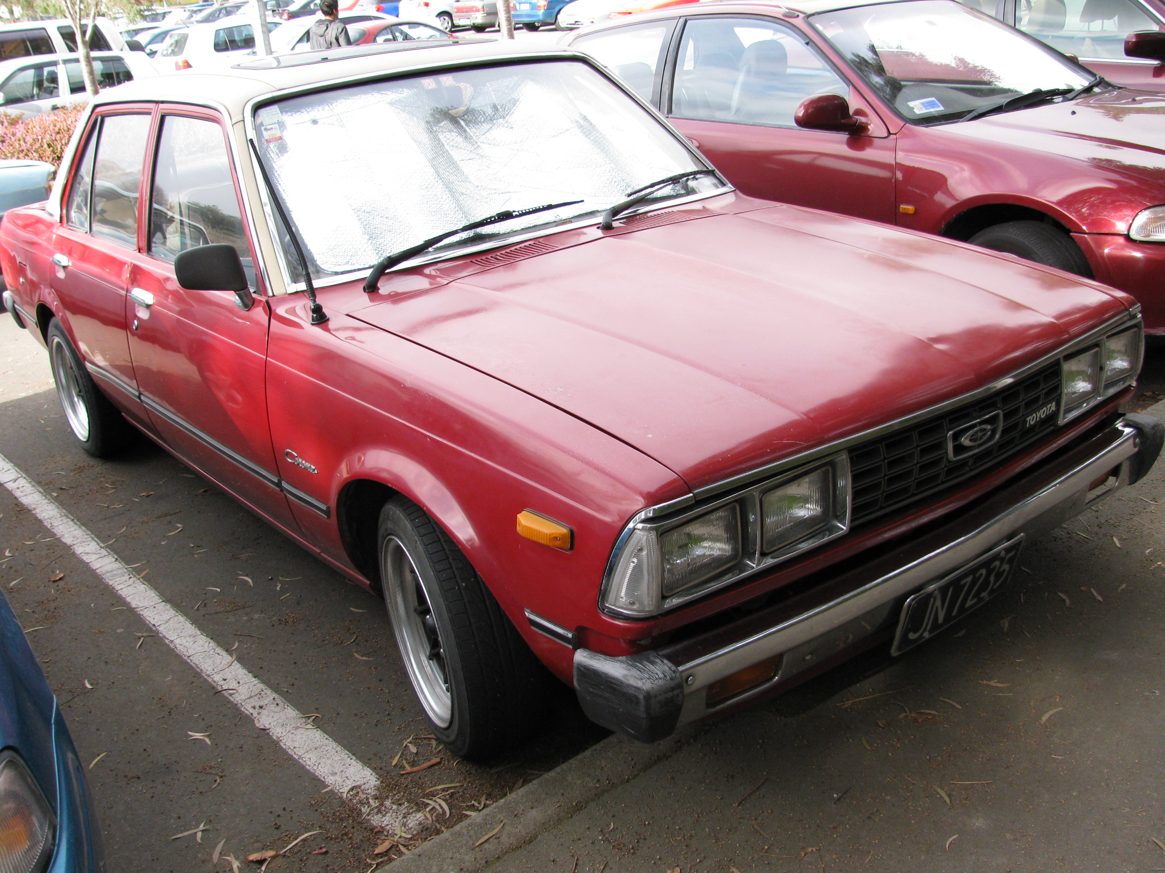 JN7235 A reasonably tidy Corona - the sunshade on the windscreen leads me to believe that this isn't boy racer-owned, despite the aftermarket wheels and the, ahem, object at the rear (which you will see soon.) This is a square-headlight T130 Corona. The University car-park really was a magnet for old and interesting cars.